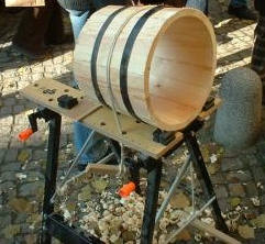 Böttcherei auf dem Pfefferkuchenmarkt Pulsnitz